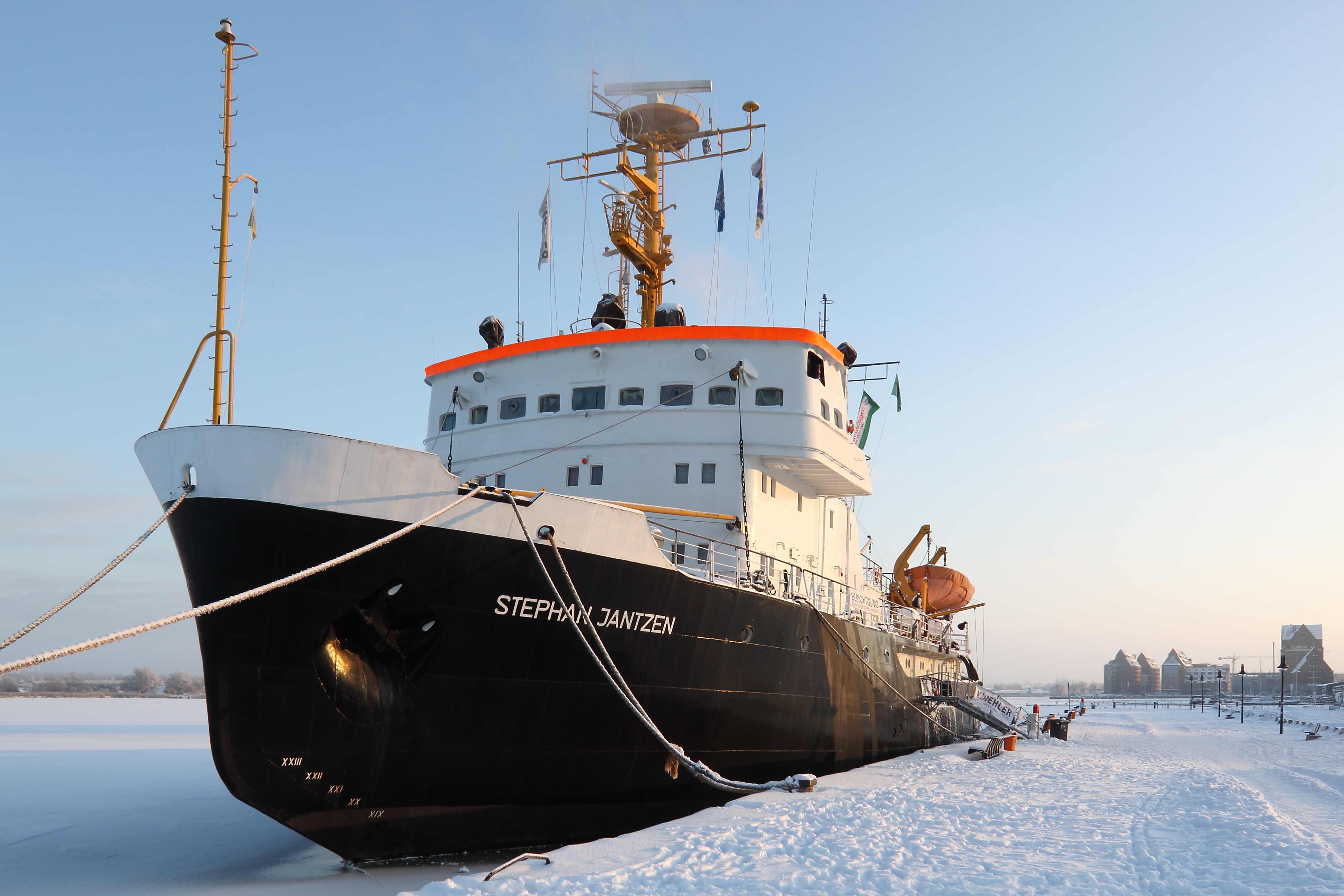 The icebreaker Stephan Jantzen, now out of commission (since 2005), in the port of Rostock.